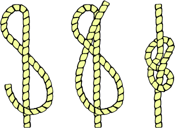 Illustration of tying a figure eight knot.